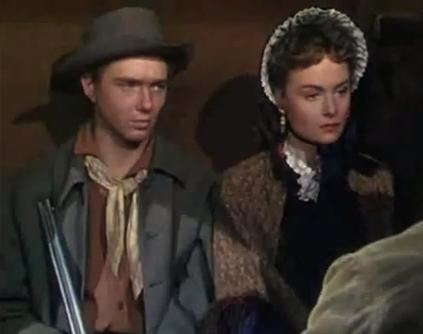 Claude Jarman, Jr. and Donna Reed in Hangman's Knot (1952) - trailer (cropped screenshot)